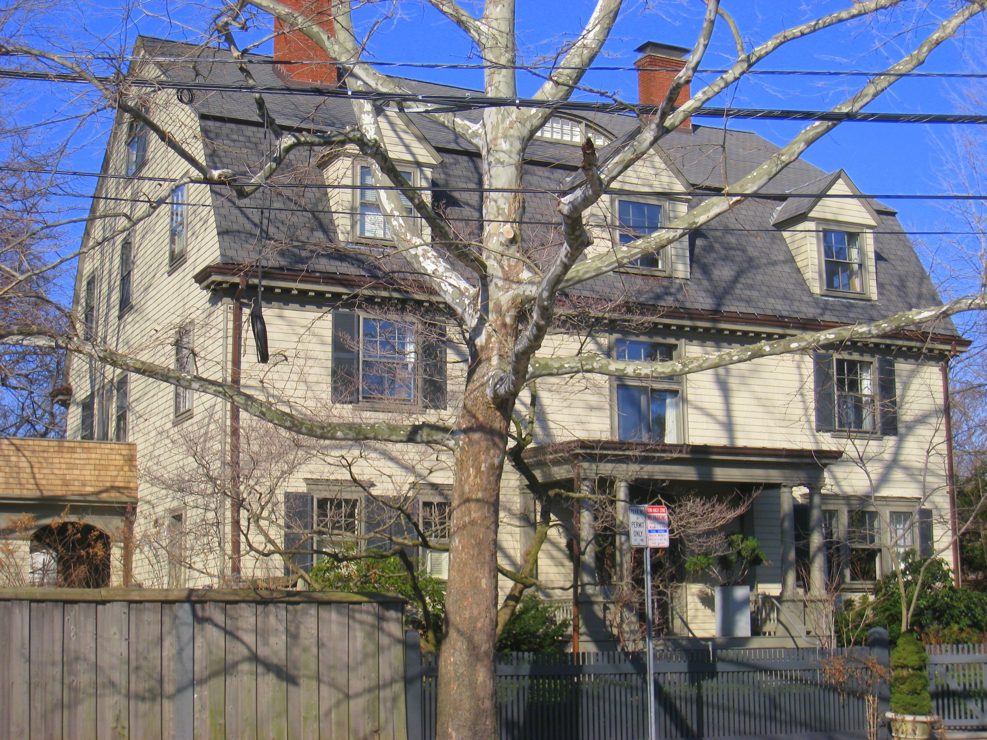 House of Prof. William James, noted American philosopher, 95 Irving Street, Cambridge, Massachusetts, USA. I took this photograph.